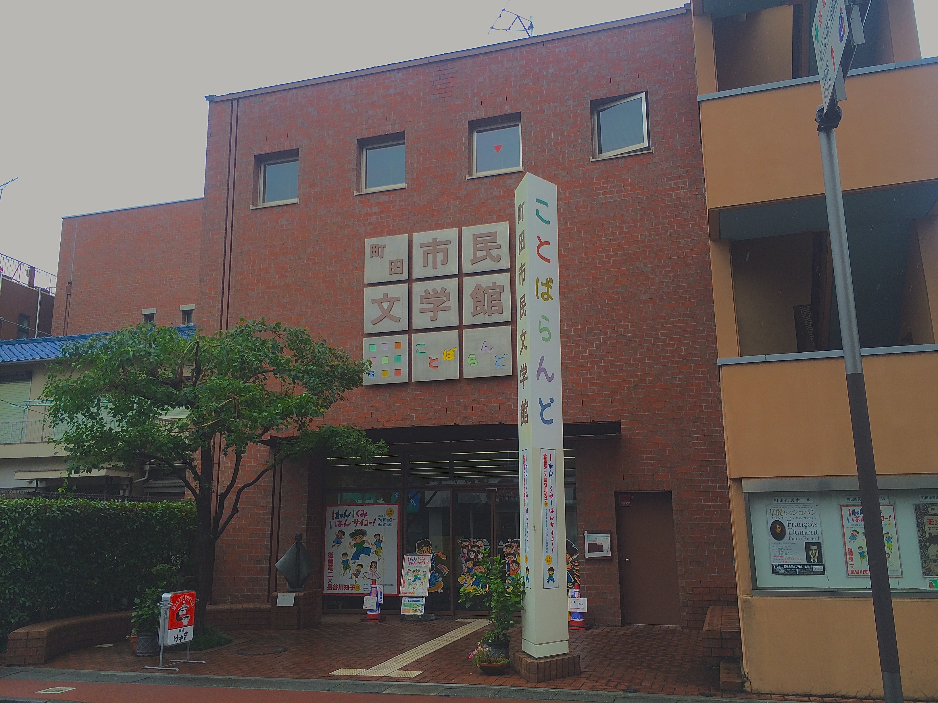 The outside of appearance of Machida Citizens Literature Museum KOTOBA LAND